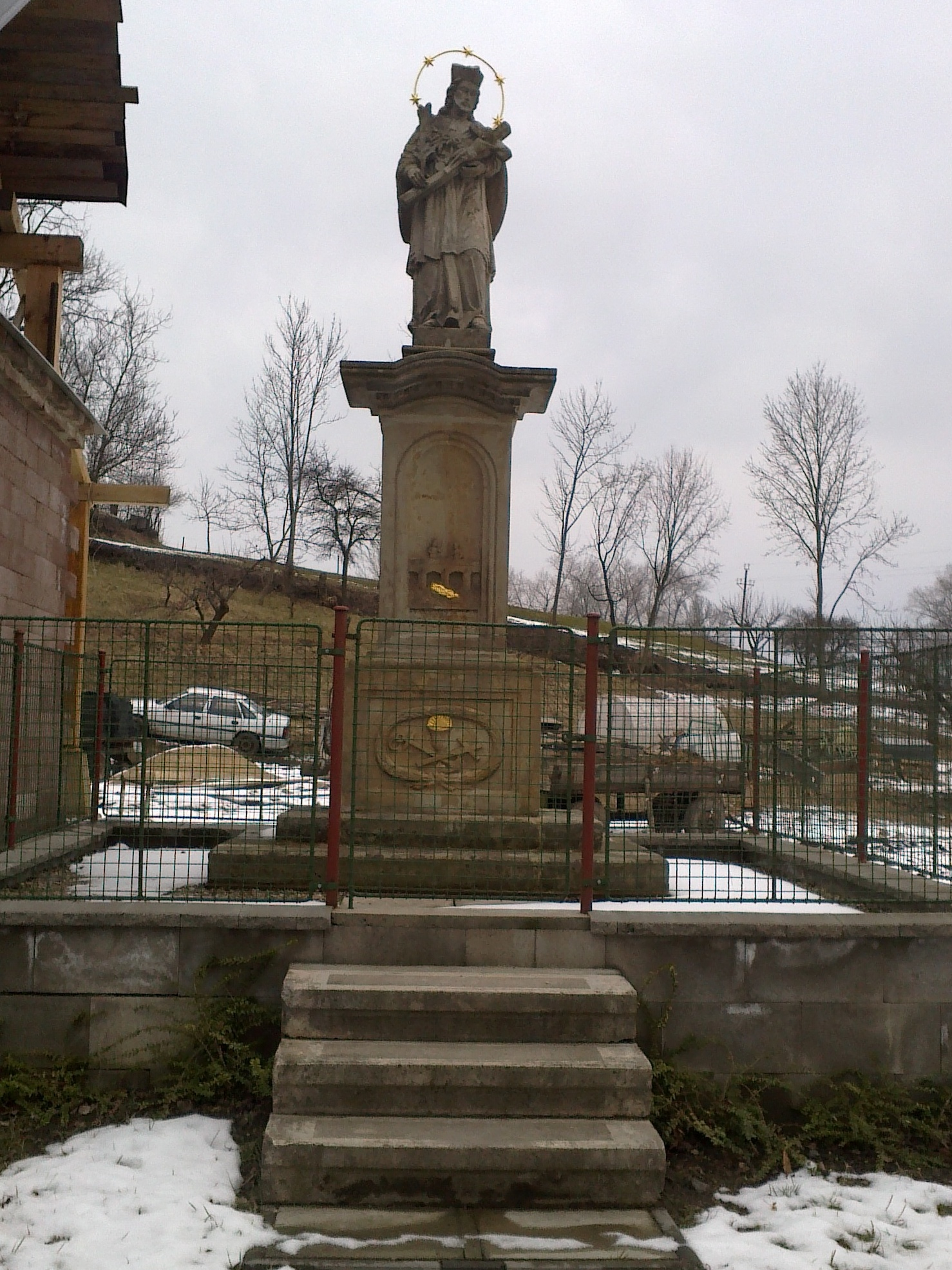 Velká Jesenice - Saint John of Nepomuk statue